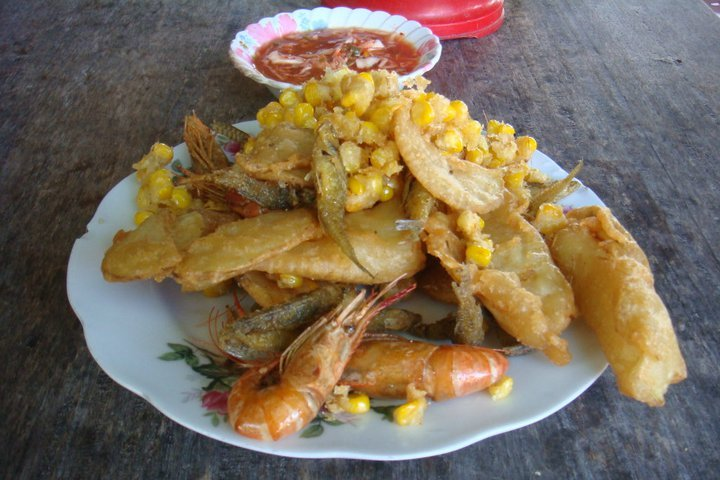 Myanmar fried snacks are assorted deep fried vegetables such as potato and onion, fruit such as banana and others such as prawns.